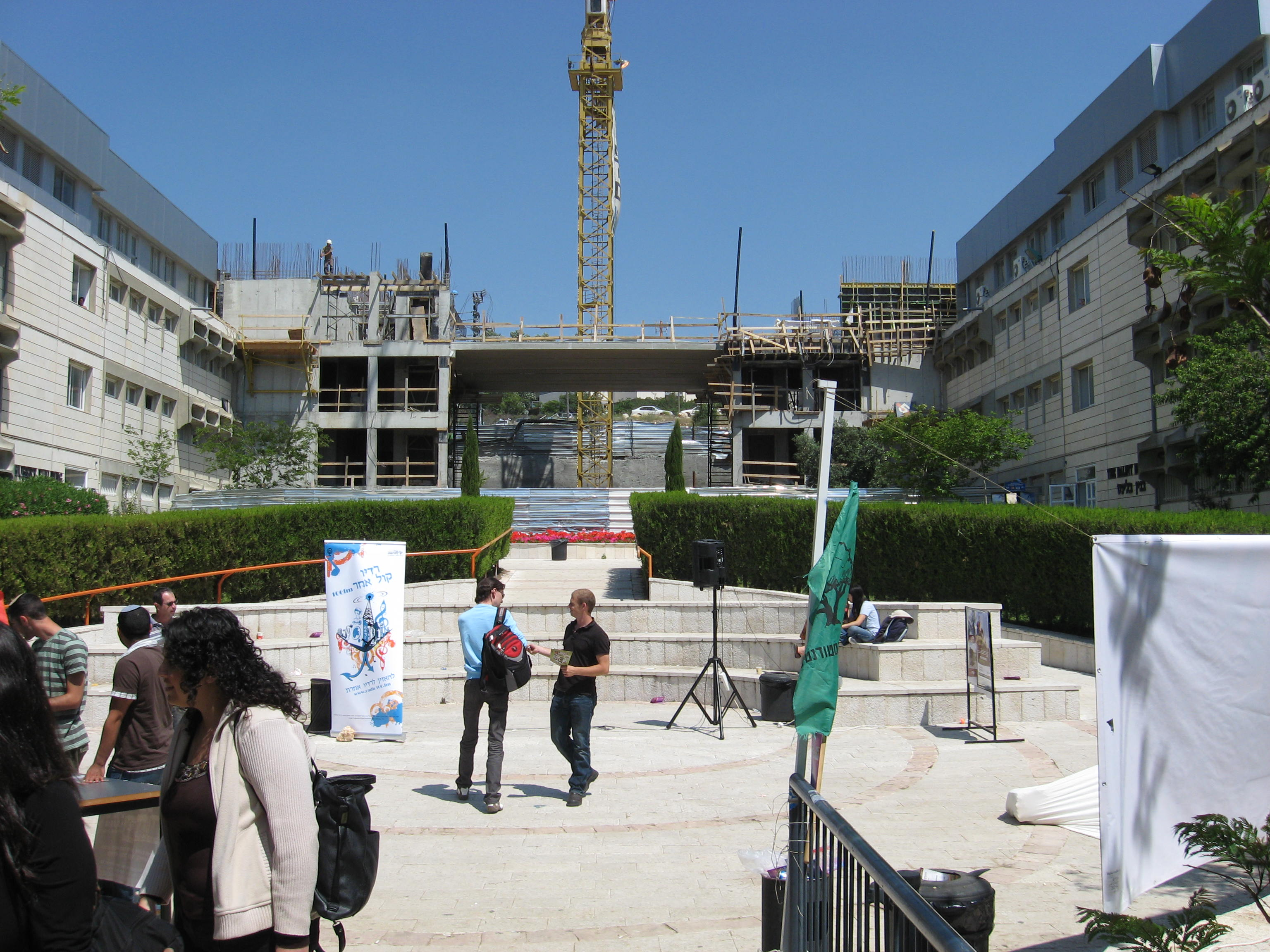 Ariel University, Construction of the Gateway Building